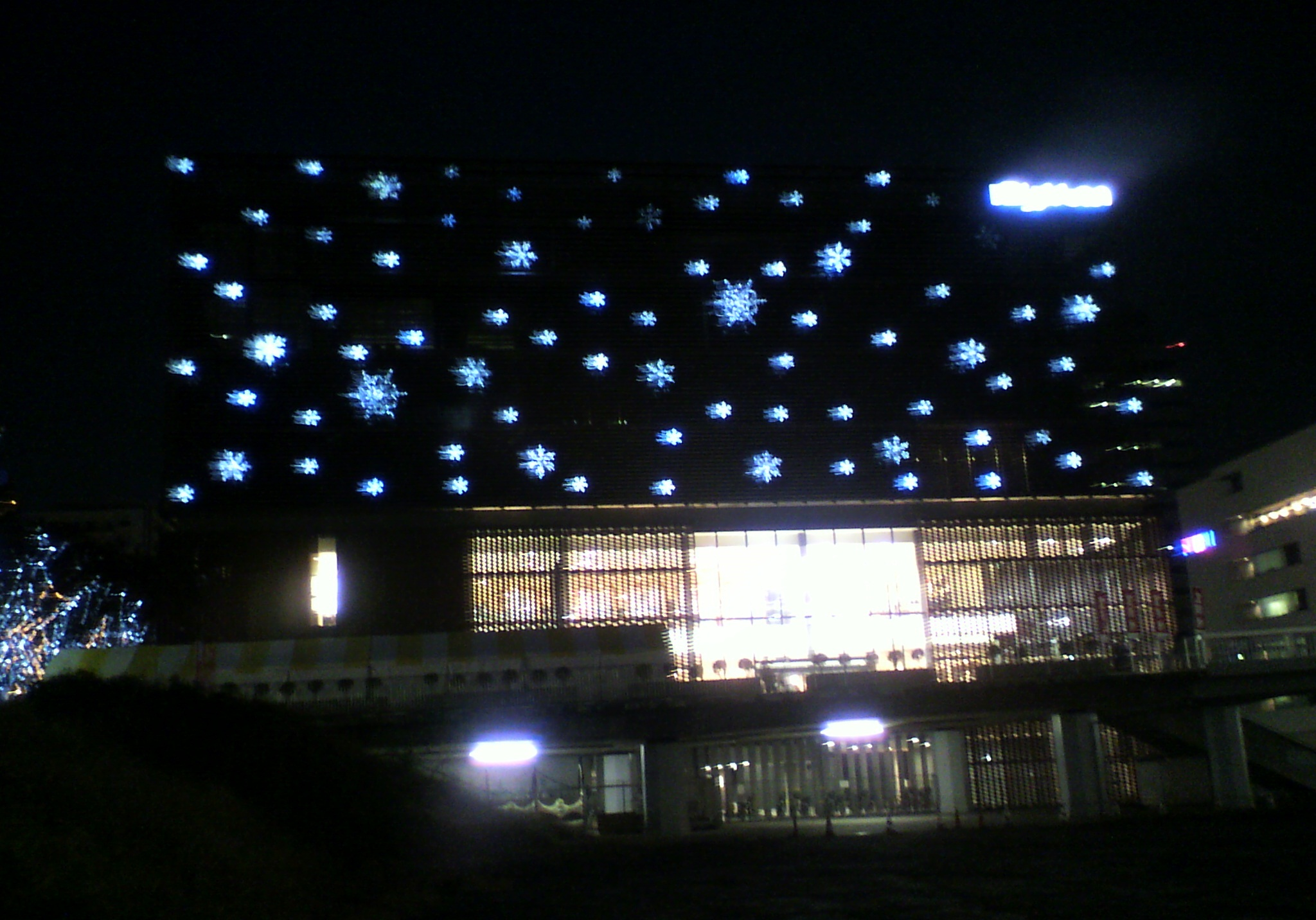 This is a scene of Christmas illumination by Right-on head office.